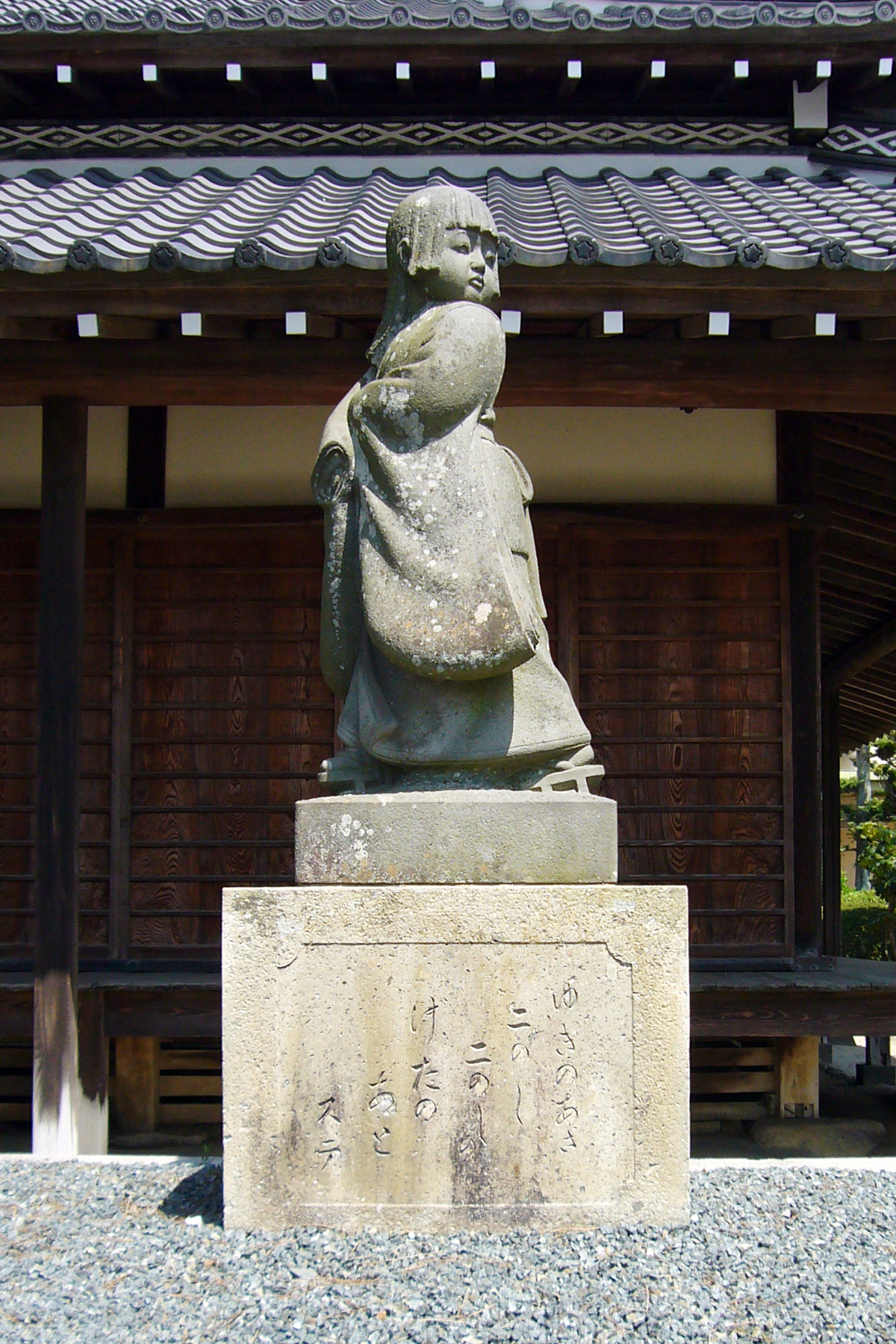 Densutejo statue at Kaibara Jinya in Tamba, Hyogo prefecture, Japan